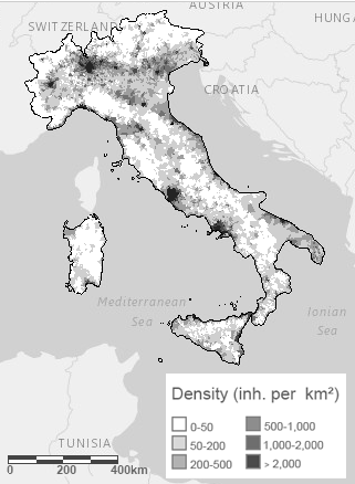 Map of population density in Italy as at the 2011 census.